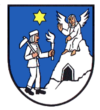 Coat of arms of Sulzburg